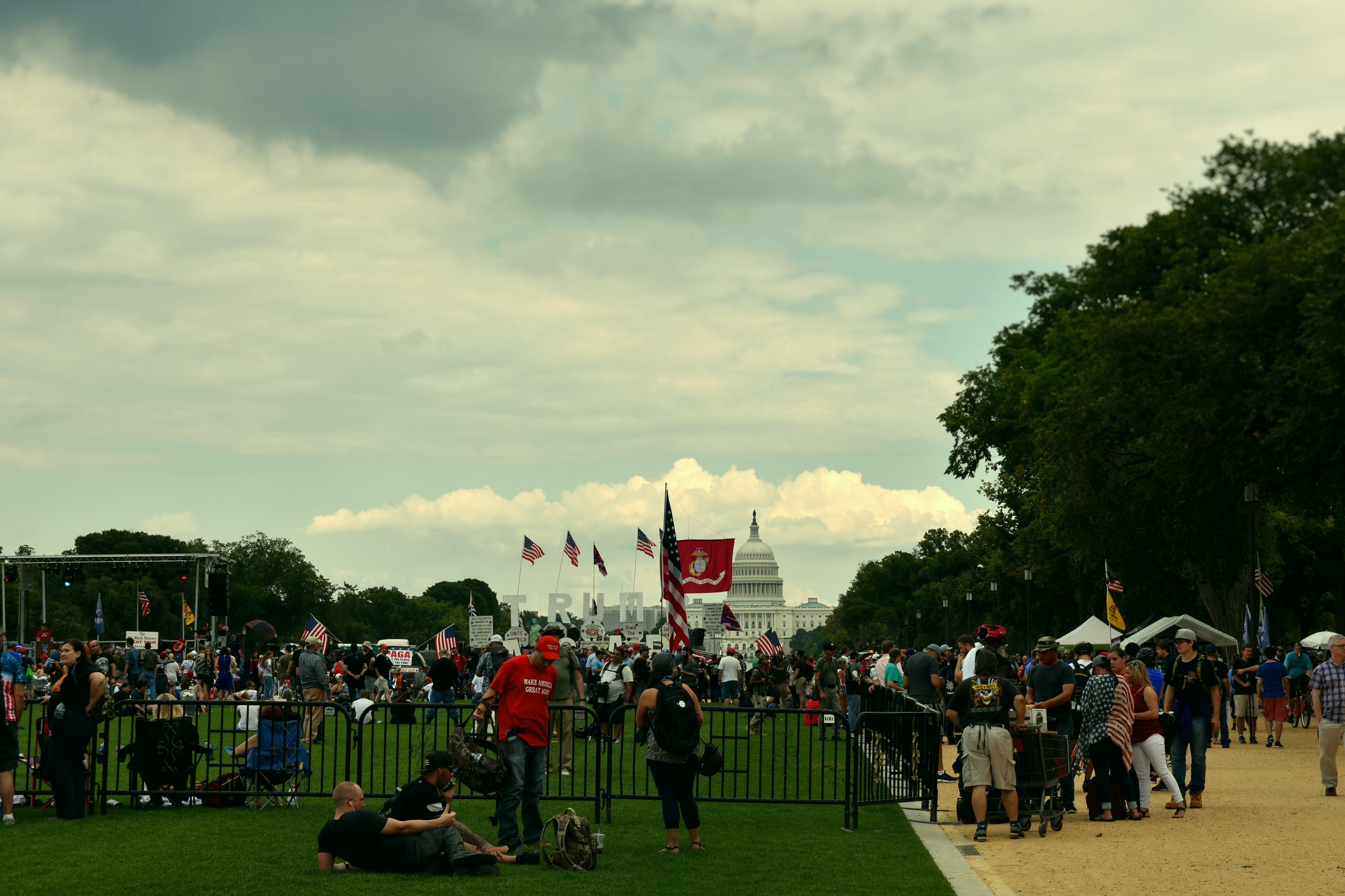 WASHINGTON DC, SEPT 16 2017: The "Mother of All Rallies" event in support of Donald Trump draws a small group to the National Mall.